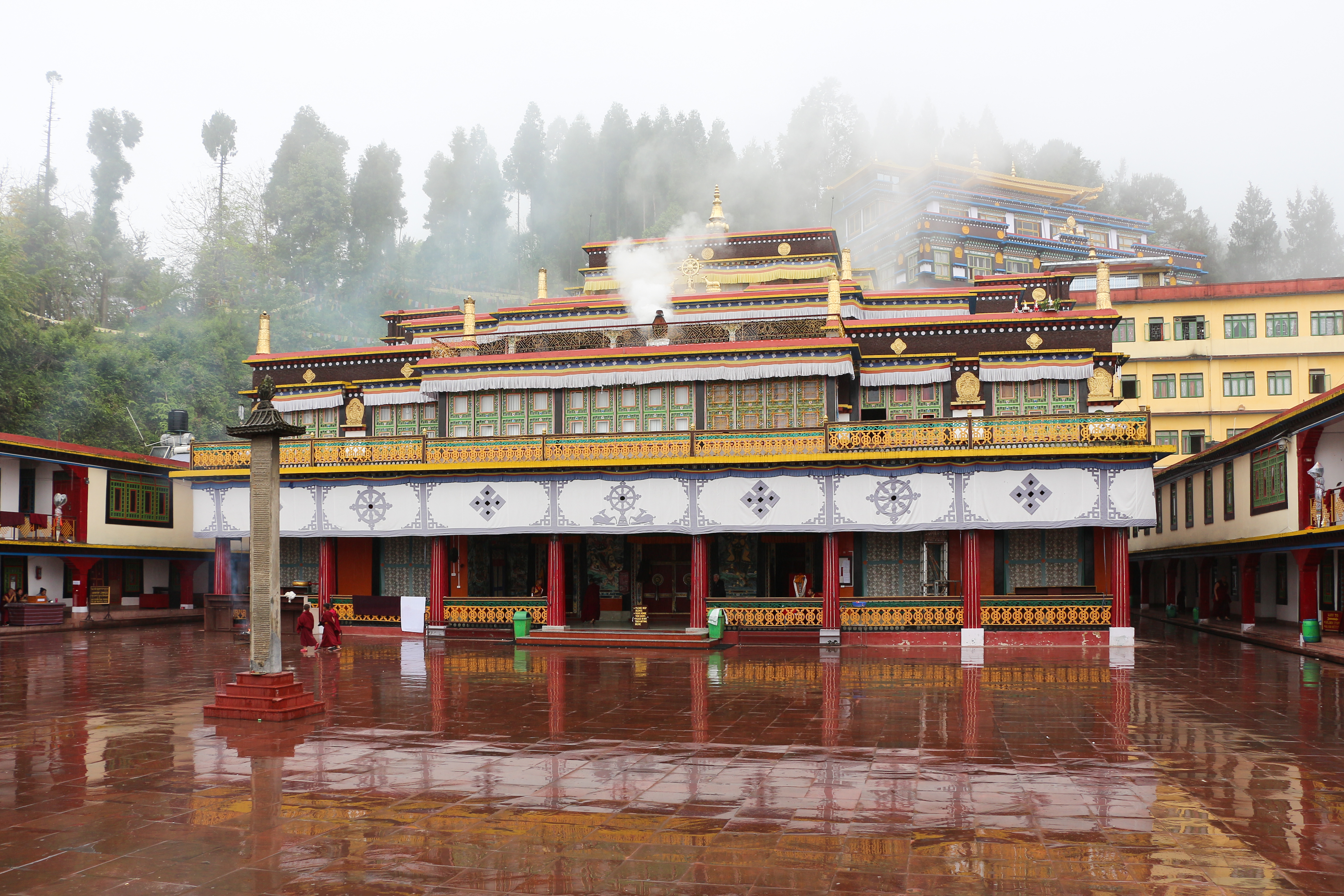 Rumtek Monastery, Sikkim, India